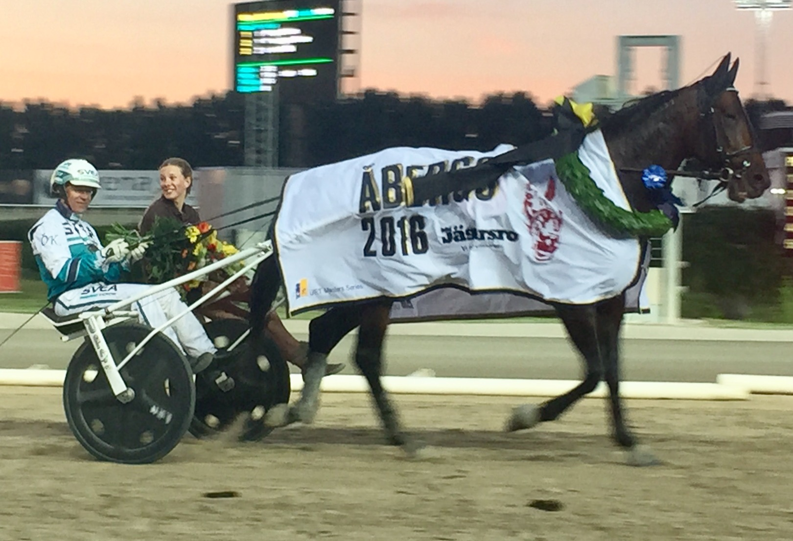 Örjan Kihlström and Propulsion after winning Hugo Åbergs Memorial 2016.